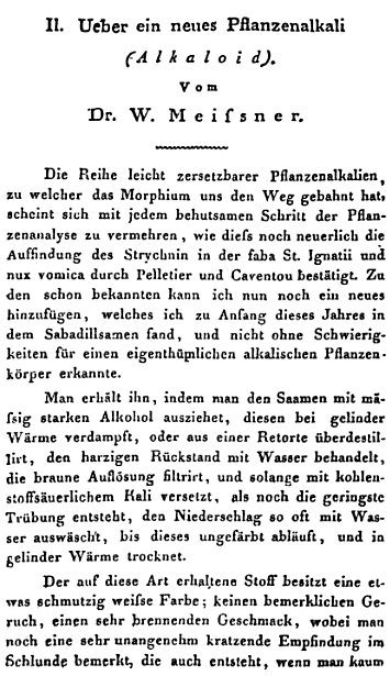 The beginning of the 1819 article by Carl Friedrich Wilhelm Meißner where he defines the term "Alkaloid".